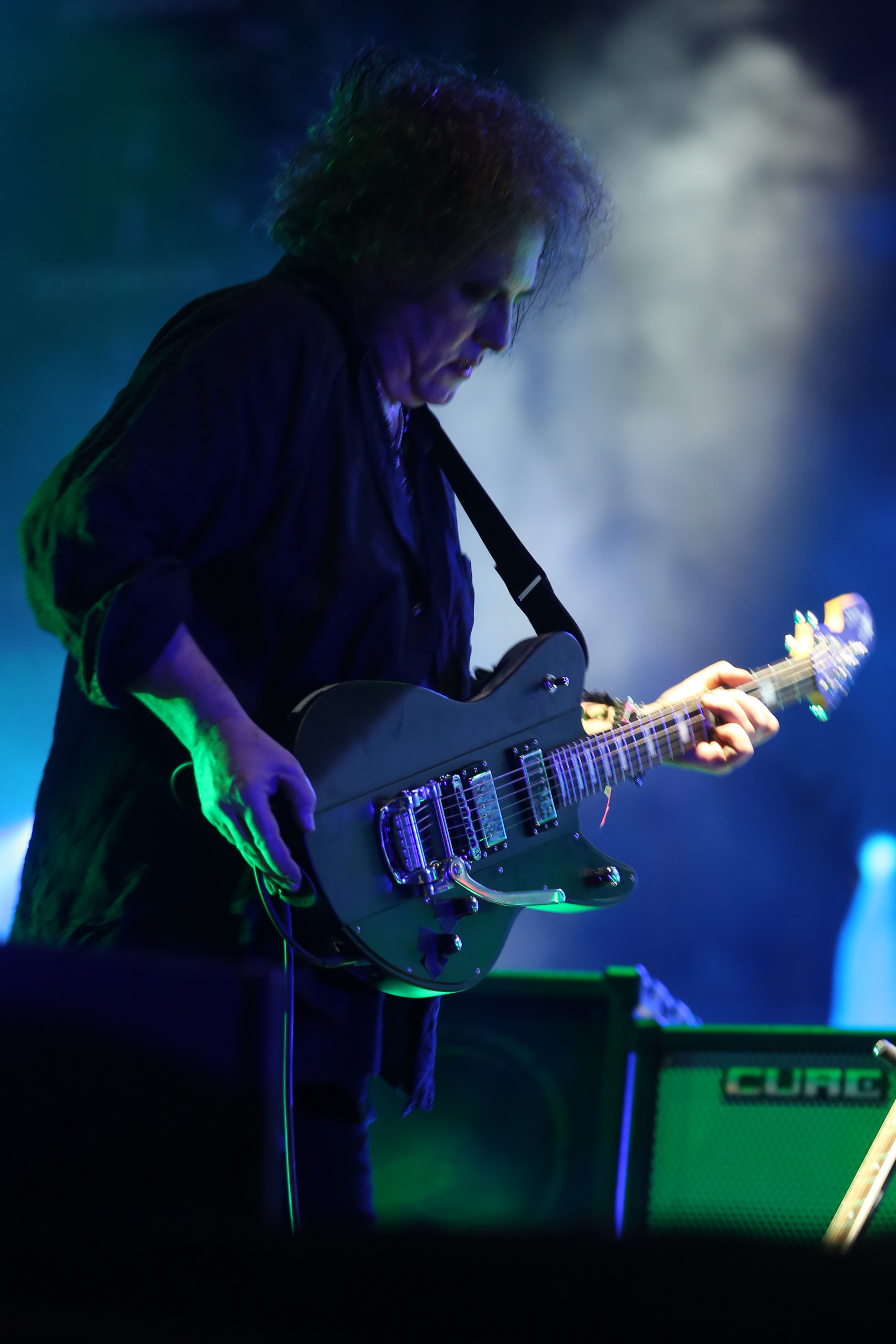 The Cure at Southside Festival 2019